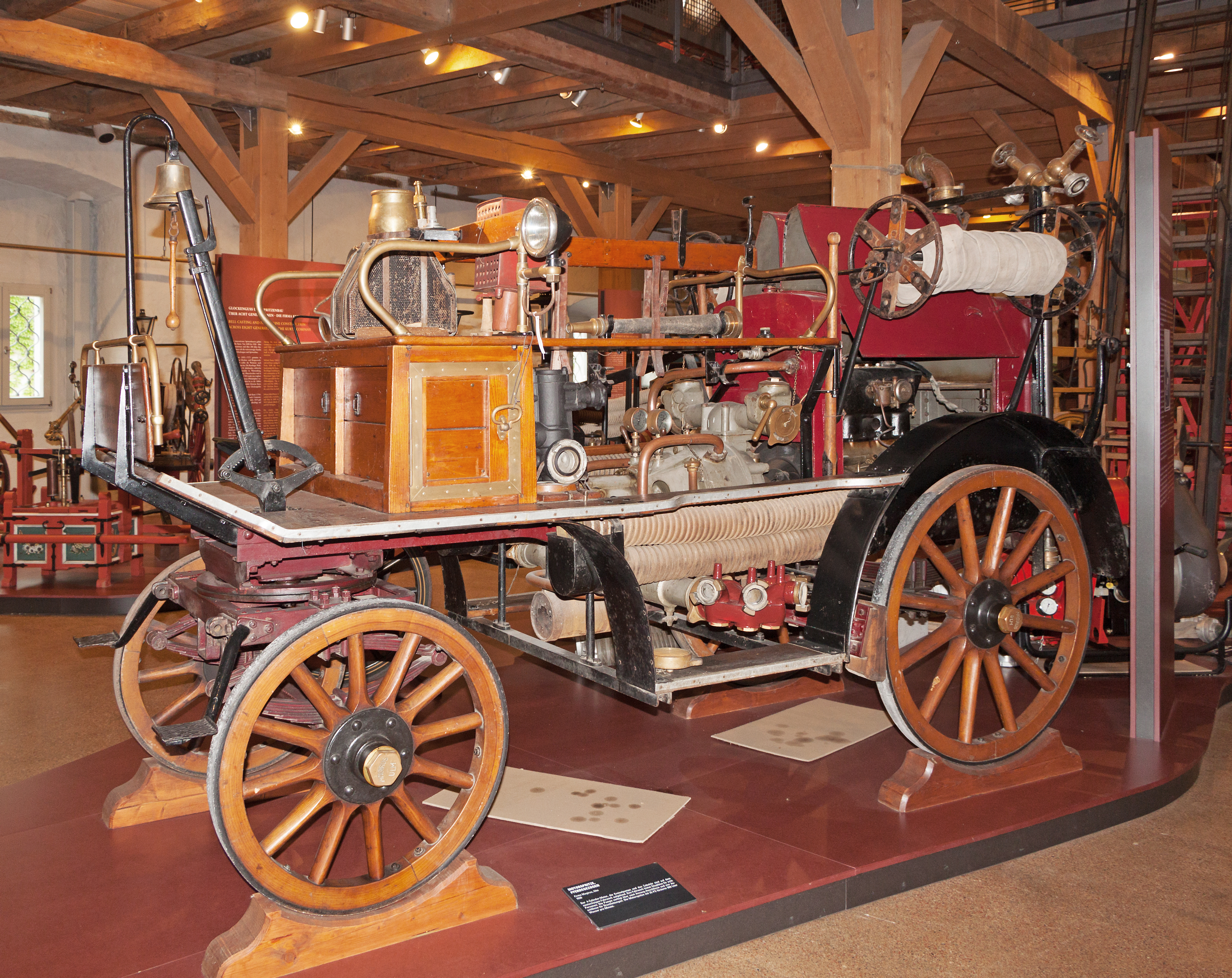 Horse-drawn petrol fire engine by Magirus, 1926, Ulm, Germany; Feuerwehrmuseum Salem, Baden-Württemberg, Germany.